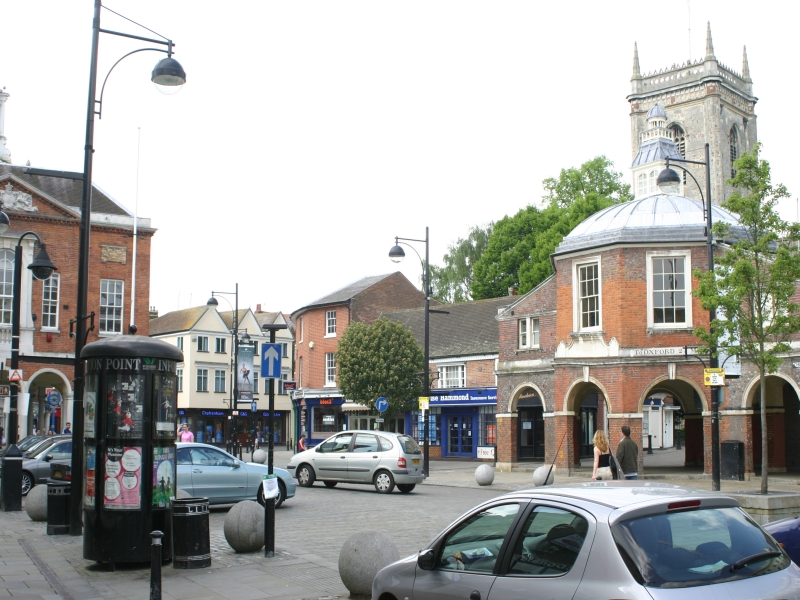 High Wycombe Town Centre, England